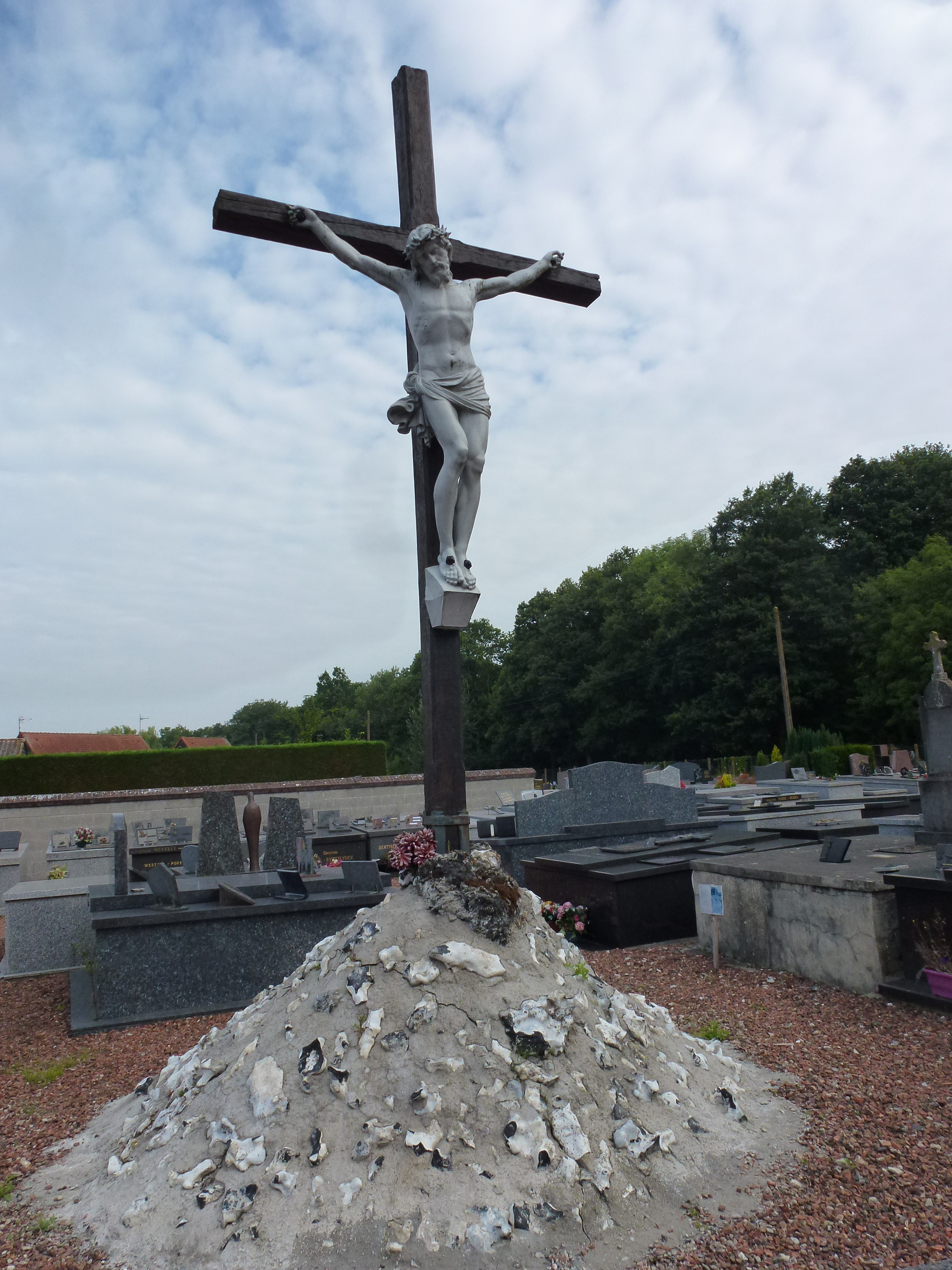 Clairmarais (Pas-de-Calais, Fr) calvaire du cimetière